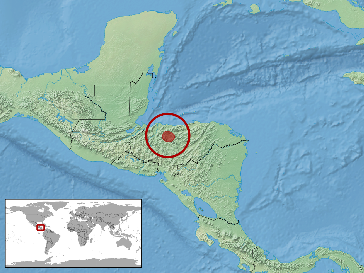 geographic distribution of Celestus scansorius (Native: Honduras)